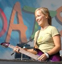 Live photo of Lenna Kuurmaa at the Real festival in Kolblenz (Germany) at august 2005.